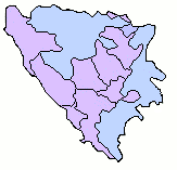 This map has been uploaded by Electionworld from to enable the Wikimedia Atlas of the World . Original uploader to was Asim Led, known as Asim Led at . Electionworld is not the creator of this map. Licensing information is below.